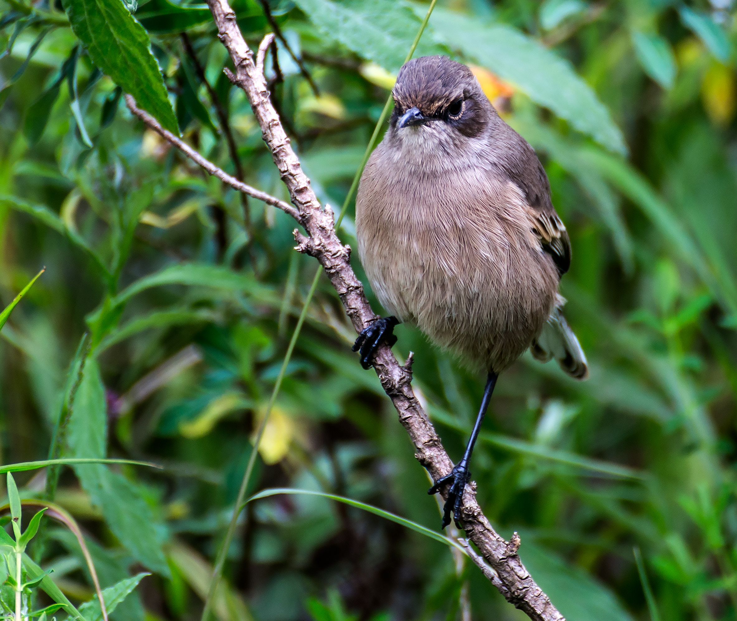 The Ethiopian moorland chat subspecies, Cercomela sordida sordida